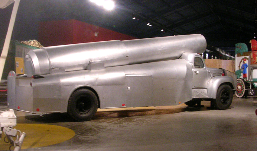 This "cannon," mounted on a truck, was used in the Ringling Brothers and Barnum & Bailey Circus to propel men - "human cannonballs" - across the circus tent or auditorium in the 1930s to early 1960s. Most were members of the Zacchini family, in several generations. John Ringling brought their act to the U.S. for his circus in 1929. The cannon is in the Circus Museum, part of the Ringling Museum in Sarasota, Florida.